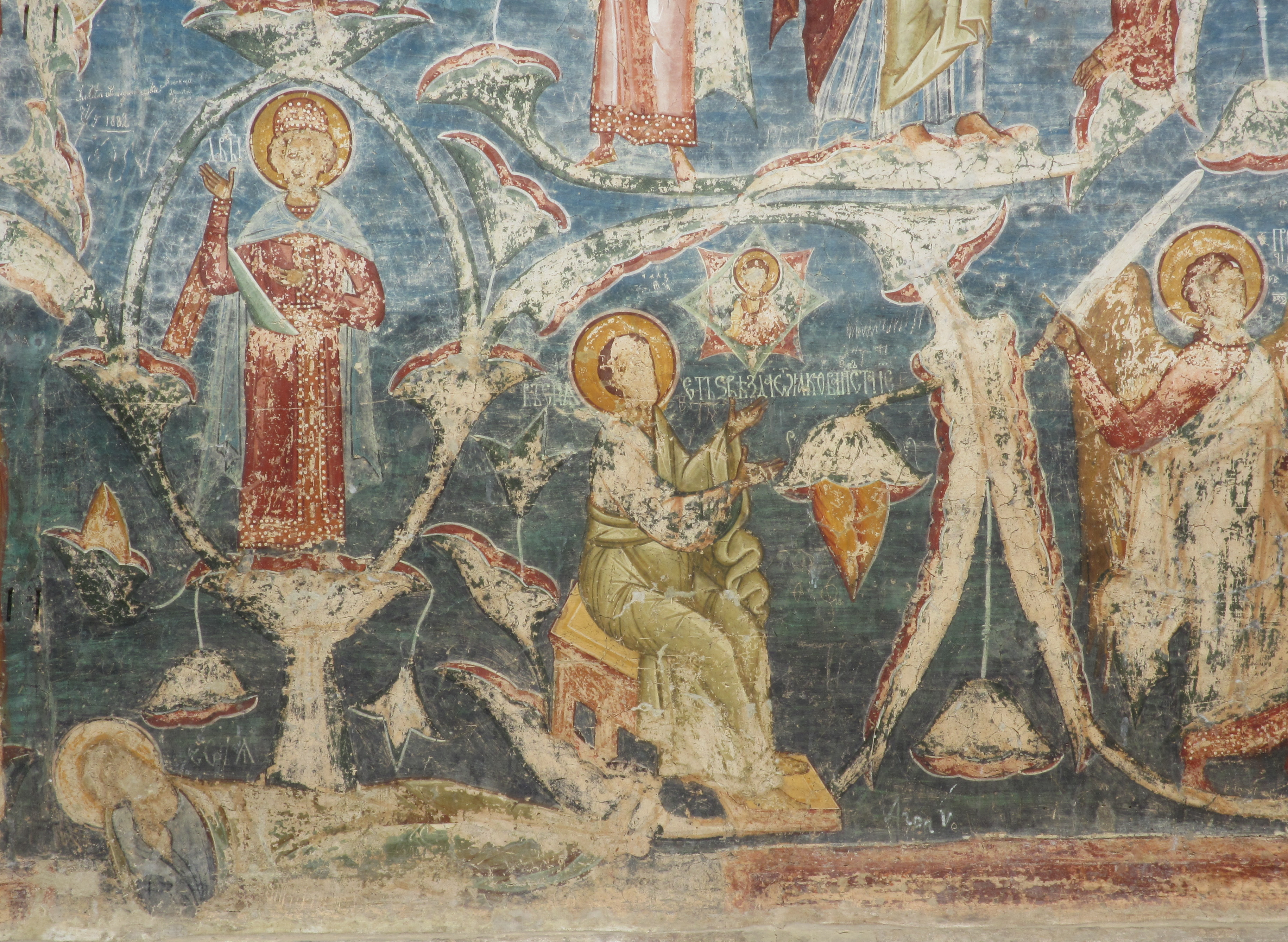 Voroneţ Monastery, Romania. The church is one of the Painted churches of northern Moldavia listed in UNESCO's list of World Heritage sites.